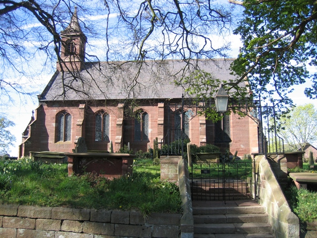 St Mary's parish church, Coddington, Cheshire, seen from the south